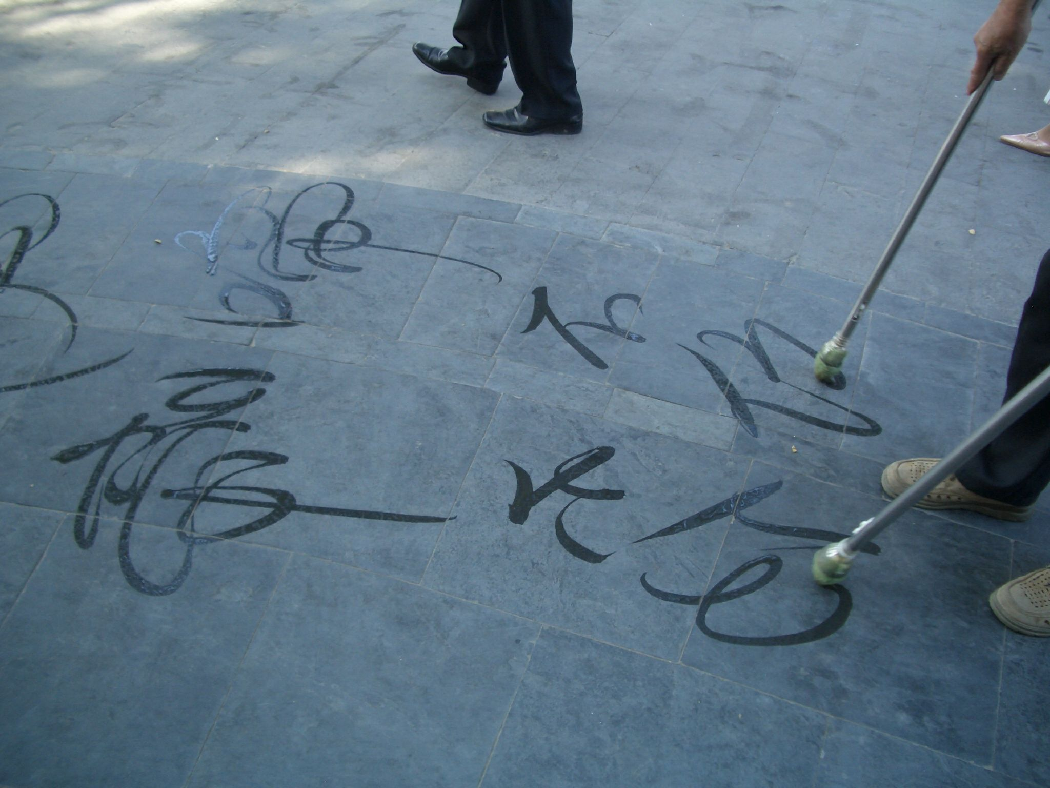 A man writing Chinese calligraphy with water brush at the Summer Palace in Beijing